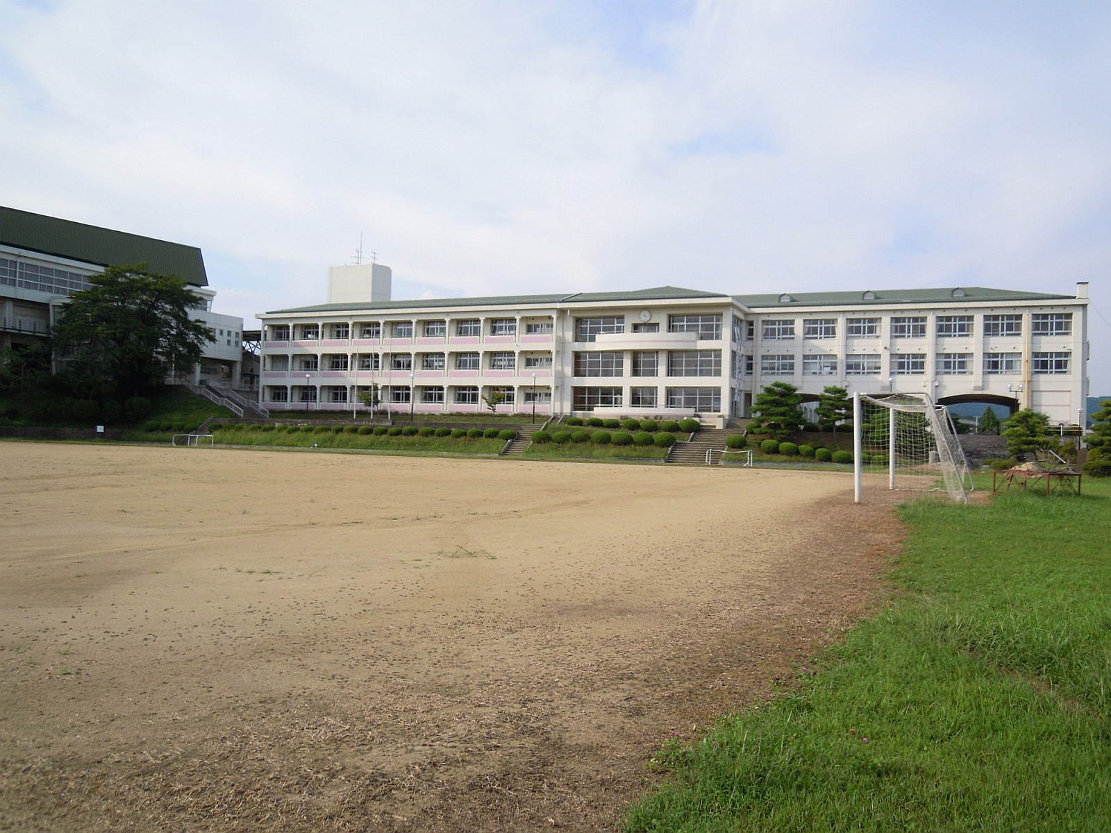 This is the Murata High School, in Murata town, Miyagi Prefecture, Japan